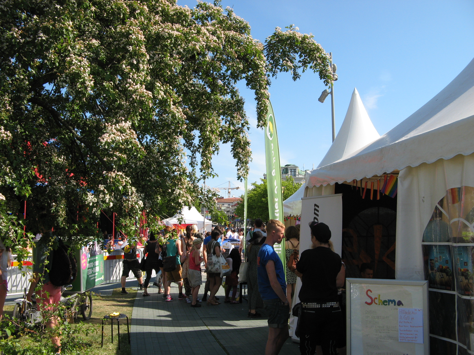 West Pride Gothenburg 2014